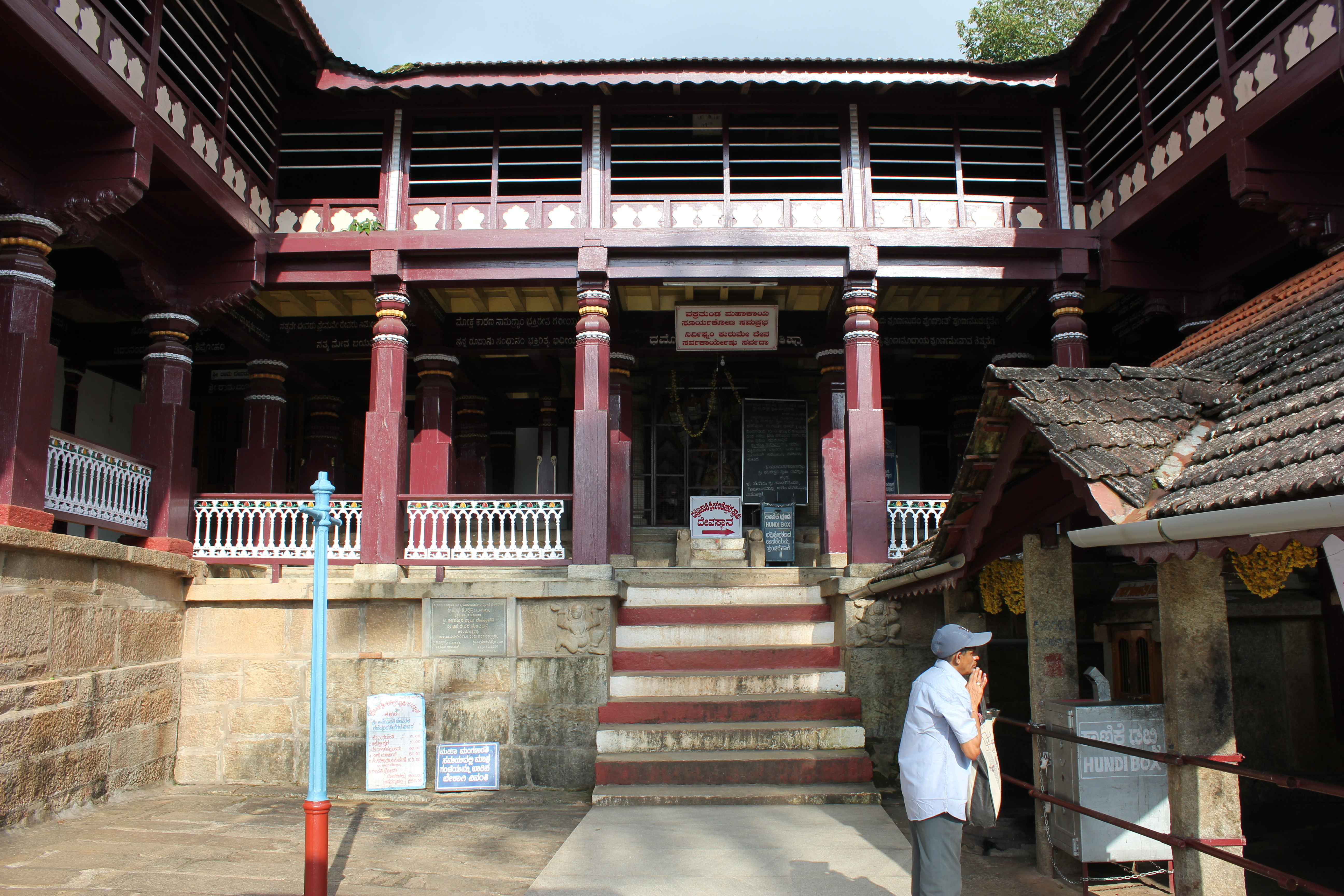 The Kalaseshwara temple is a temple dedicated to the Hindu god Shiva. It is in the town of Kalasa, Chikkamagaluru district, Karnataka state, India